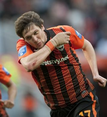 Yevhen Seleznyov